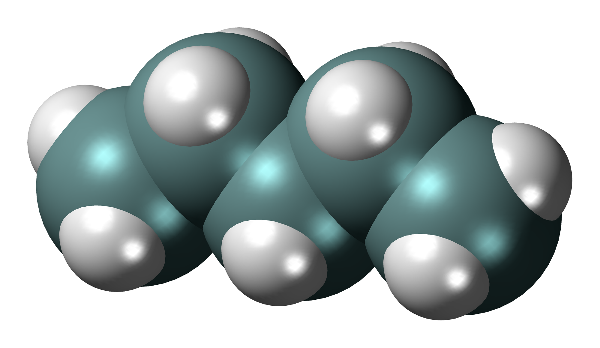 Space-filling model of the pentasilane molecule, an analog of pentane where the carbon is replaced by silicon. Colour code: Hydrogen, H: white Silicon Si: blue-grey